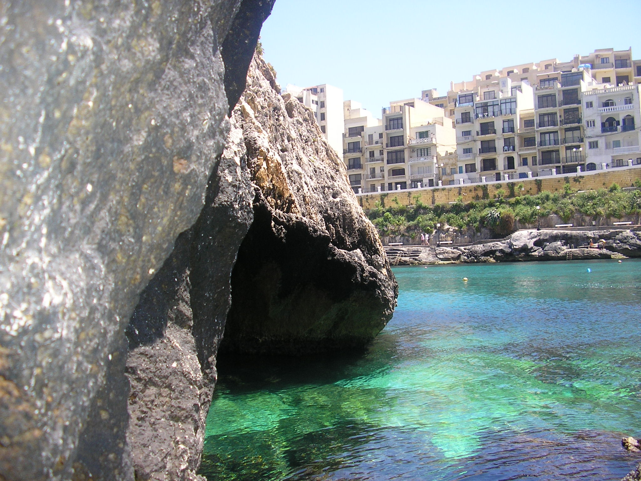 A photo taken from the mouth of Caroline Cave